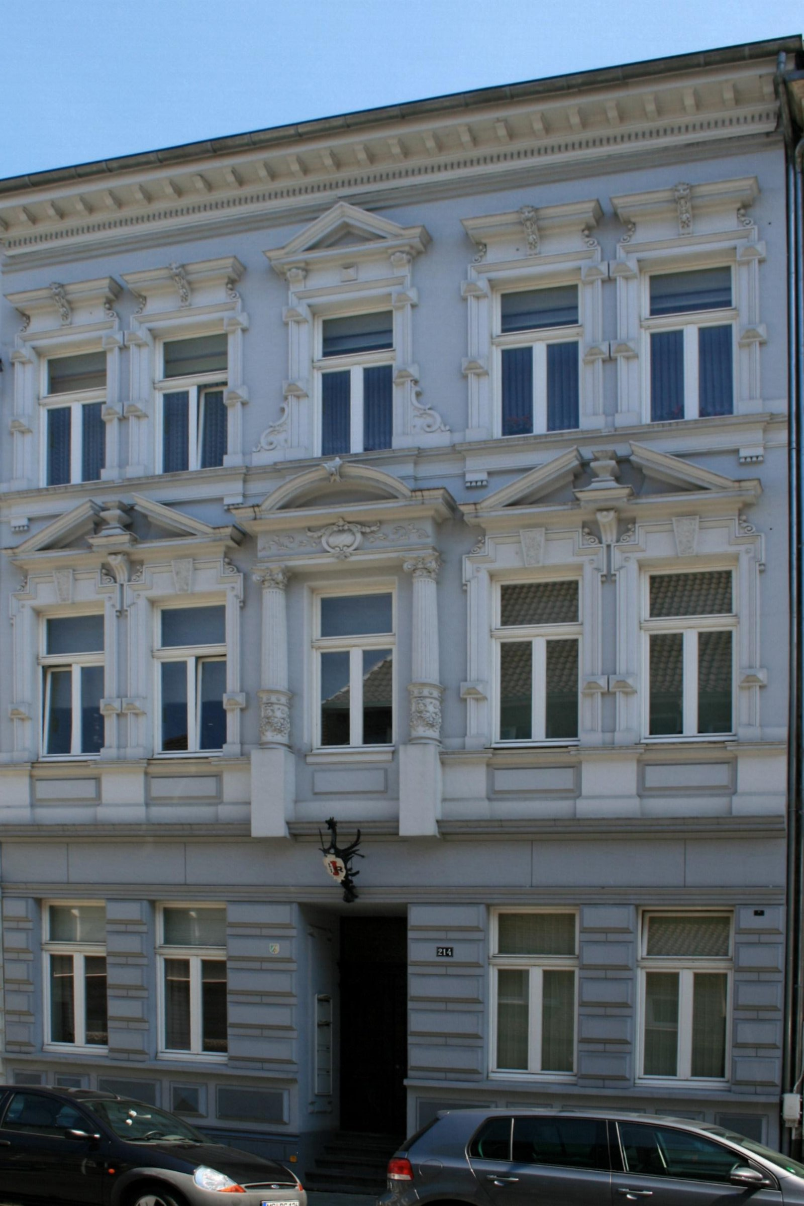 Cultural heritage monument No. R 075 in Mönchengladbach